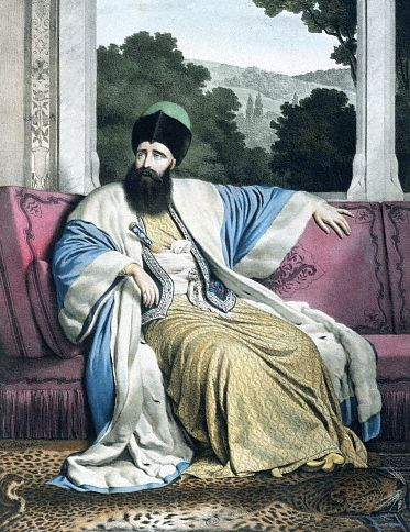 The hospodar of Moldavia, Michael Soutzos